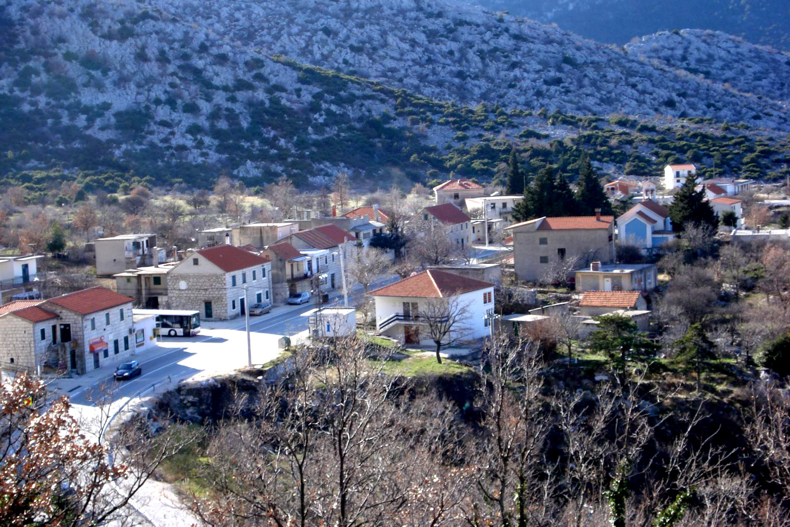 Gornja Brela, district Subotišće, with a church, a museum and a supermarket.